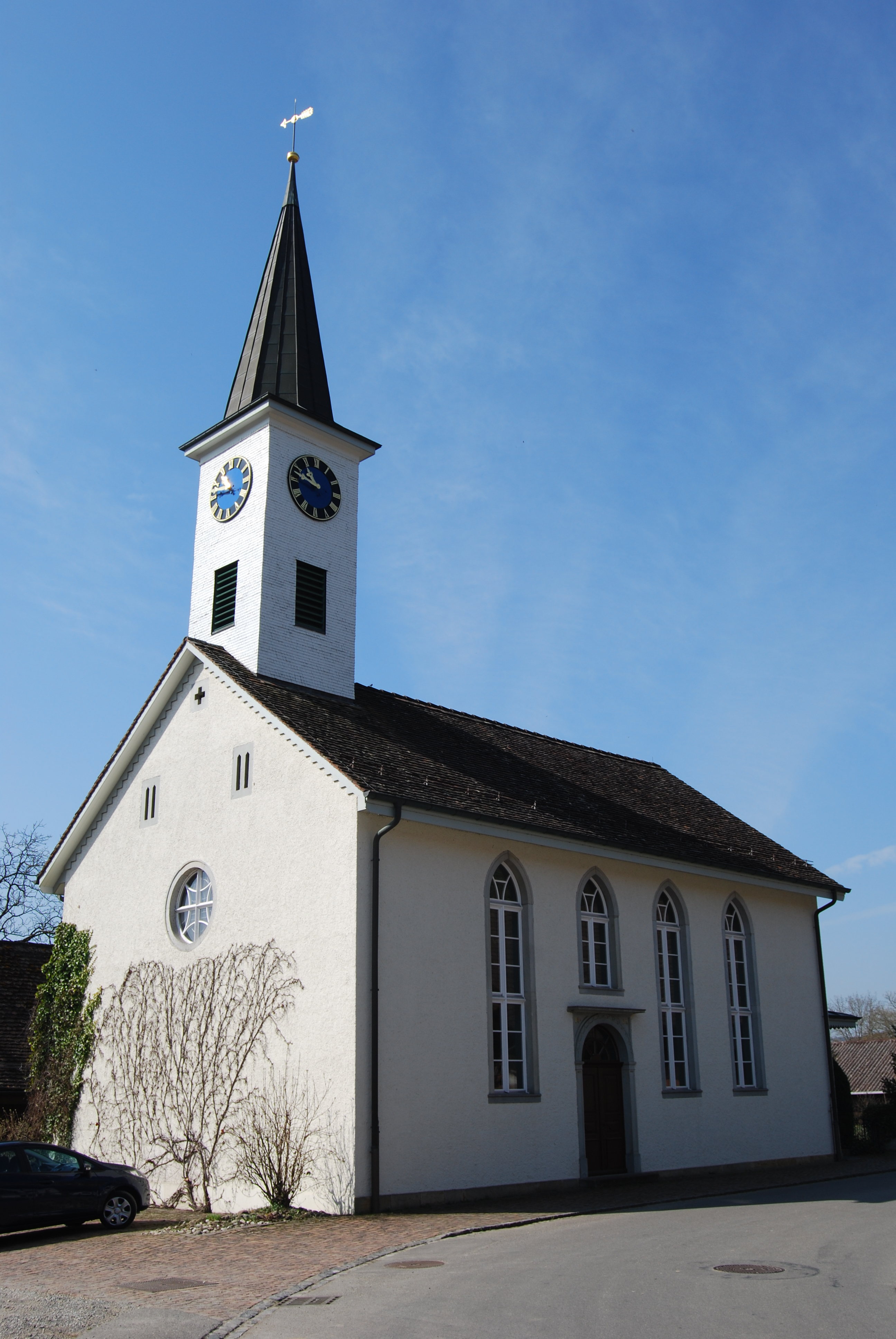 Church of Wasterkingen, canton of Zürich, SwitzerlandEsperanto: Preĝejo de Wasterkingen, Kantono Zürich, Svislando